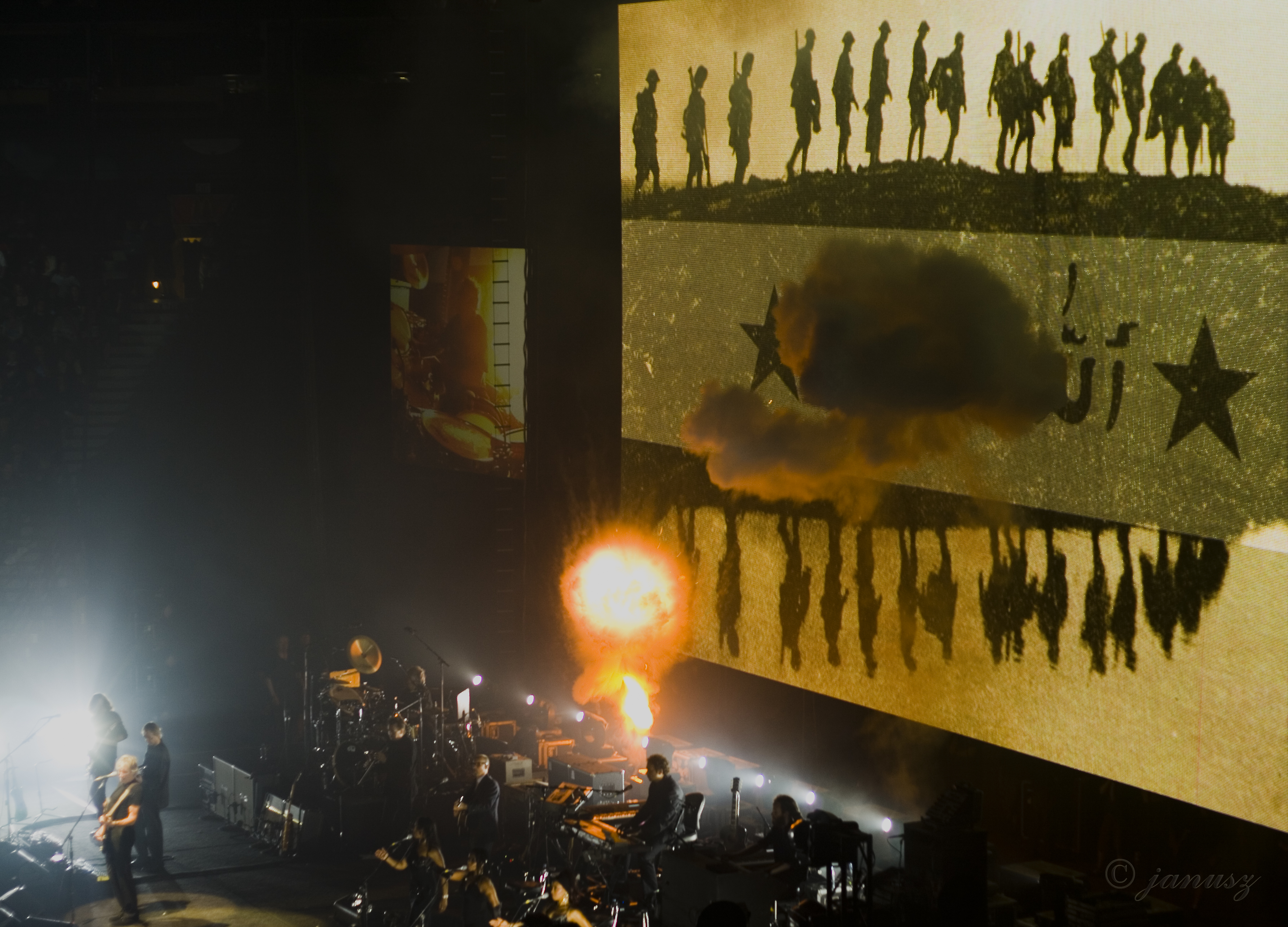 Bring the boys back home. Bring the boys back home. Don't leave the children on their own, no, no. Bring the boys back home. Roger Waters Vancouver June 2007- Dark Side Of The Moon - Tour [1] View On Black